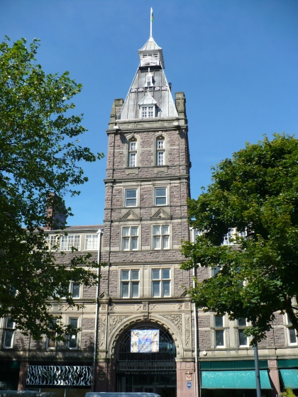 Newport Provisions Market